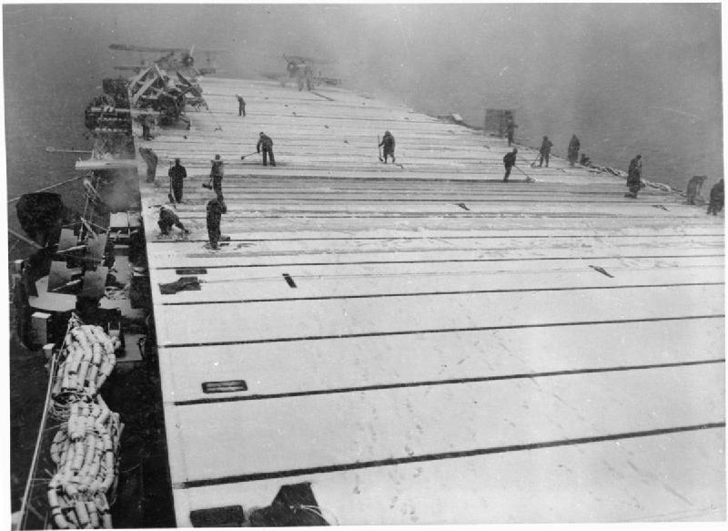 HMS Fencer flight deck being cleared of snow during convoy operation near Russia. Two Fairey Swordfish aircraft of 842 Squadron can be seen on the aft deck.